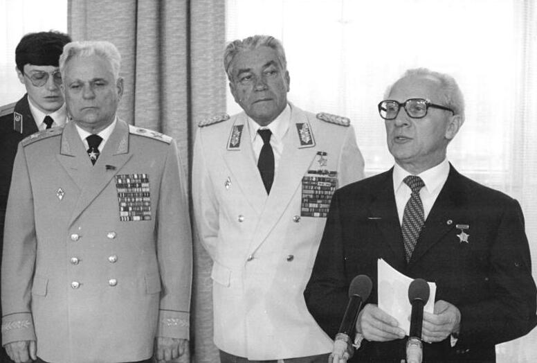 Welcome for graduates of the east german military academies „Friedrich Engels“ and „Wilhelm Pieck“ and military academies from the Soviet Union. Location: Staatsrat office building, Berlin. who is who — from left to right: unknown soldier (maybe an interpreter to Ivanovsky?) Yevgeny Pylypovych Ivanovsky, commander-in-chief of the Group of Soviet Forces in Germany (USSR) Heinz Hoffmann, defense secretary (GDR) Erich Honecker, head of state (GDR)